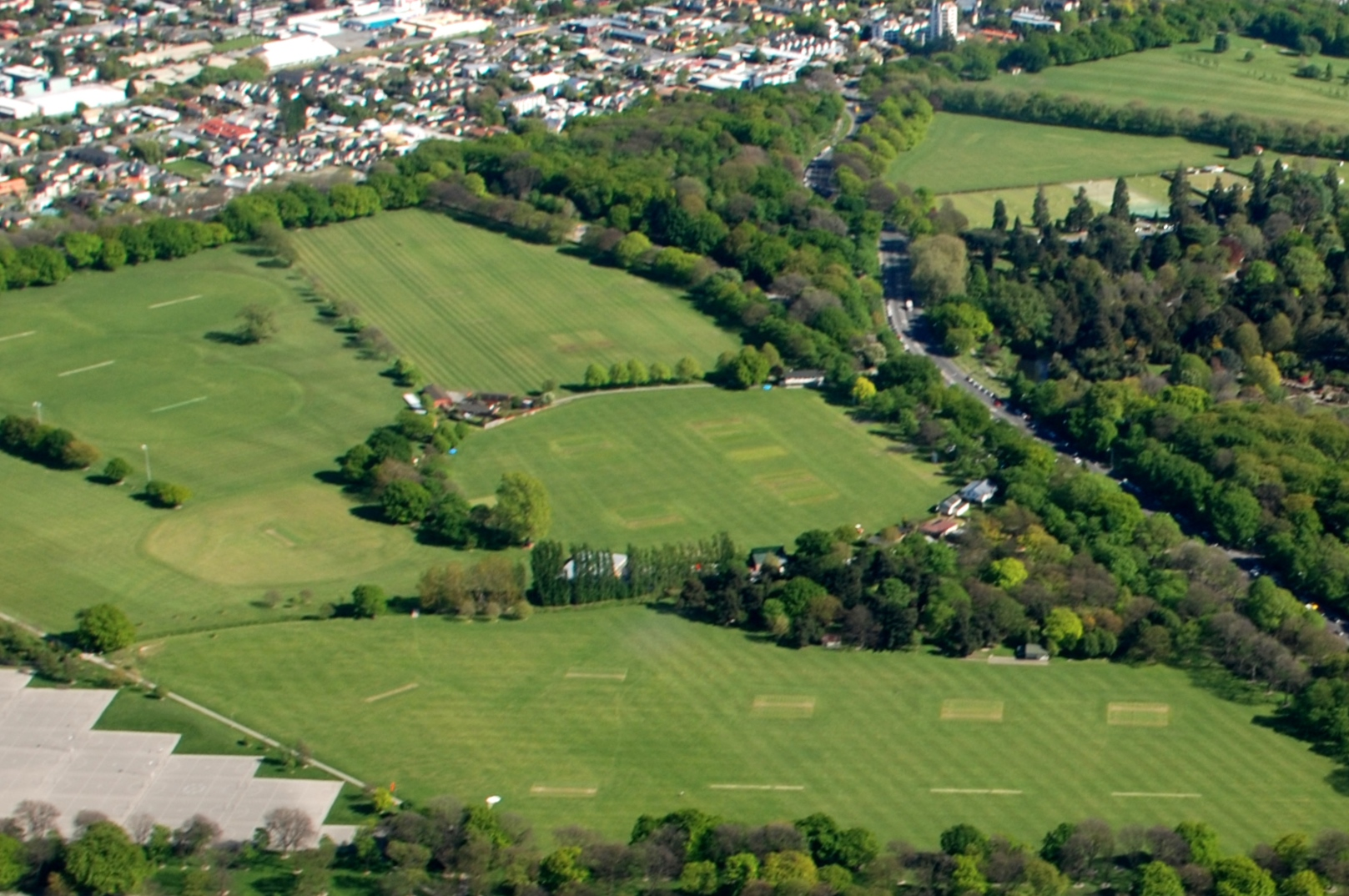 Aerial photo of Hagley Oval cricket ground in Christchurch, New Zealand, in 2007. Viewing from the south-east, facing north-west. The Oval is surrounded by South Hagley Park, with Deans Ave (along the top of the photo), and Riccarton Ave (right, running past the Oval). This is a cropped & rotated version of Phillip Capper's full-size image, "File:HagleyParkAerialPhoto.jpg". Original description: "Christchurch Hospital and Hagley High School, Canterbury, New Zealand, 24 October 2007. Photo taken en route Wellington to Christchurch."